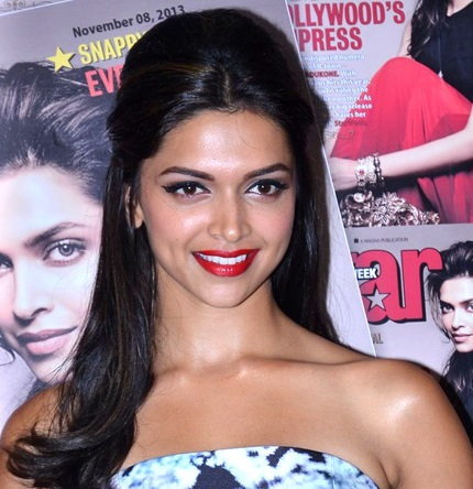 Deepika Padukone unveils Star Week magazine